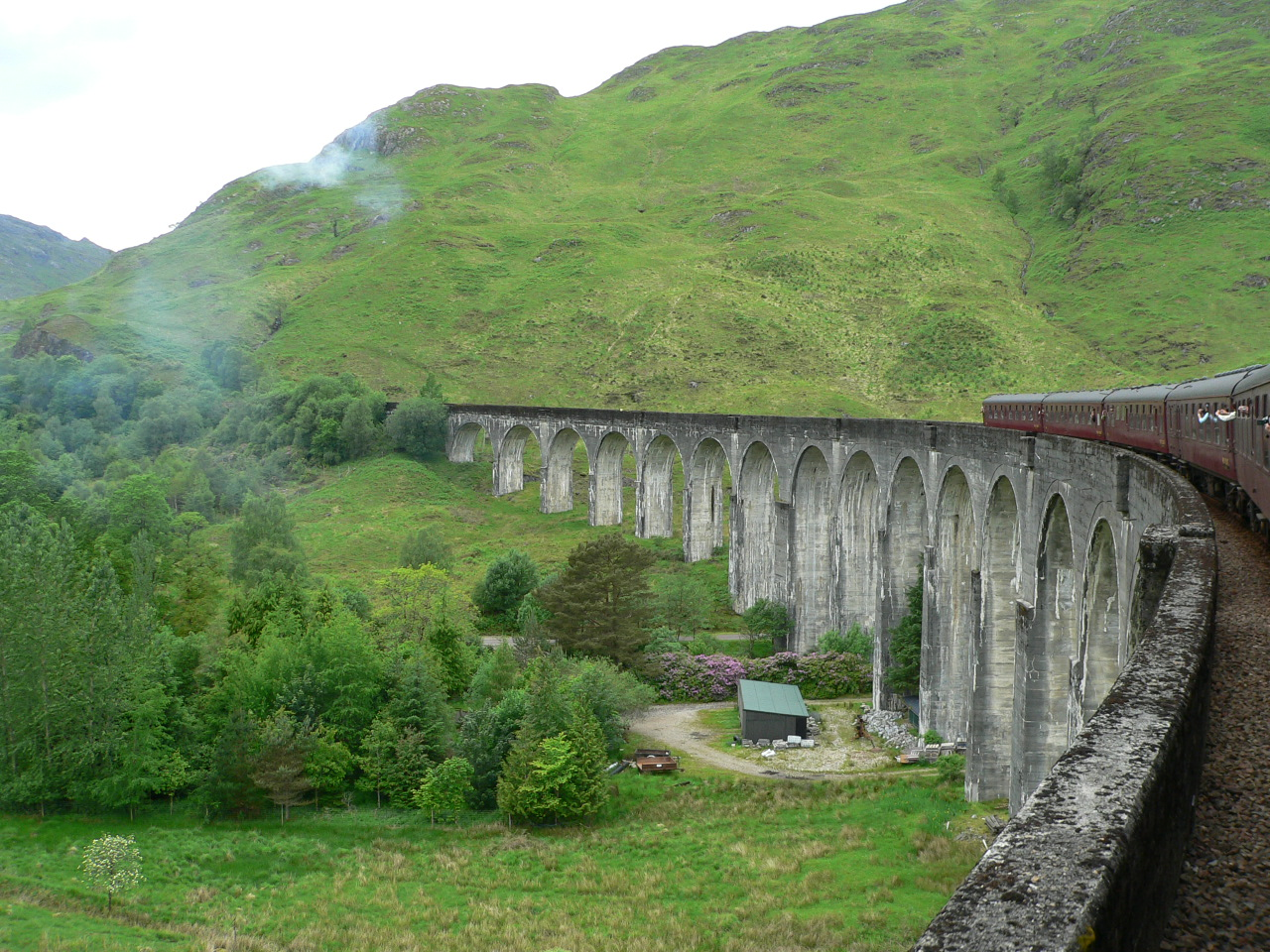 The Glenfinnan Viaduct, used in at least one of the Harry Potter films, seen from the last carriage of The Jacobite steam service on the West Highland Line from Mallaig to Fort William, hauled by LNER B1 4-6-0 locomotive 61264.